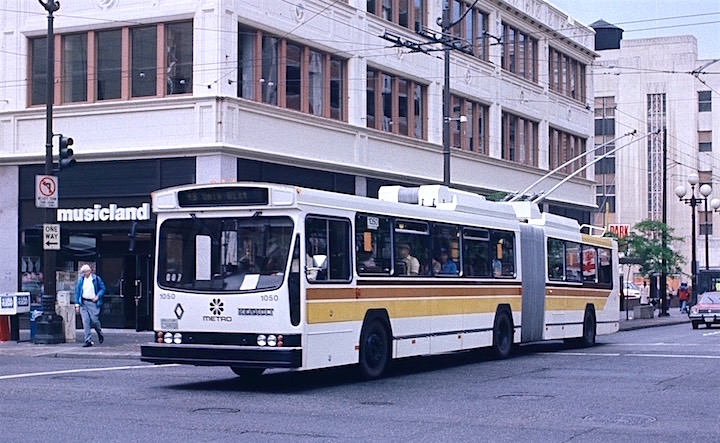 Metro Transit (Seattle) No. 1050, a dual-mode bus built by Renault and on loan from the manufacturer, in service on trolleybus route 43 in 1983. It is eastbound on Pike Street, crossing 3rd Avenue, at the beginning of a trip to Ballard. Although it was not owned by Metro, the bus was temporarily given fleet number 1050, because it was on loan for more than a year and was tested in service on numerous Metro routes. Metro was considering using dual-mode buses in its then-only-proposed Downtown Seattle Transit Tunnel and wanted to evaluate the technology. The Renault arrived in summer 1982, entered service on November 1, 1982, and ran in service for the last time in December 1983. It left Seattle in early 1984.